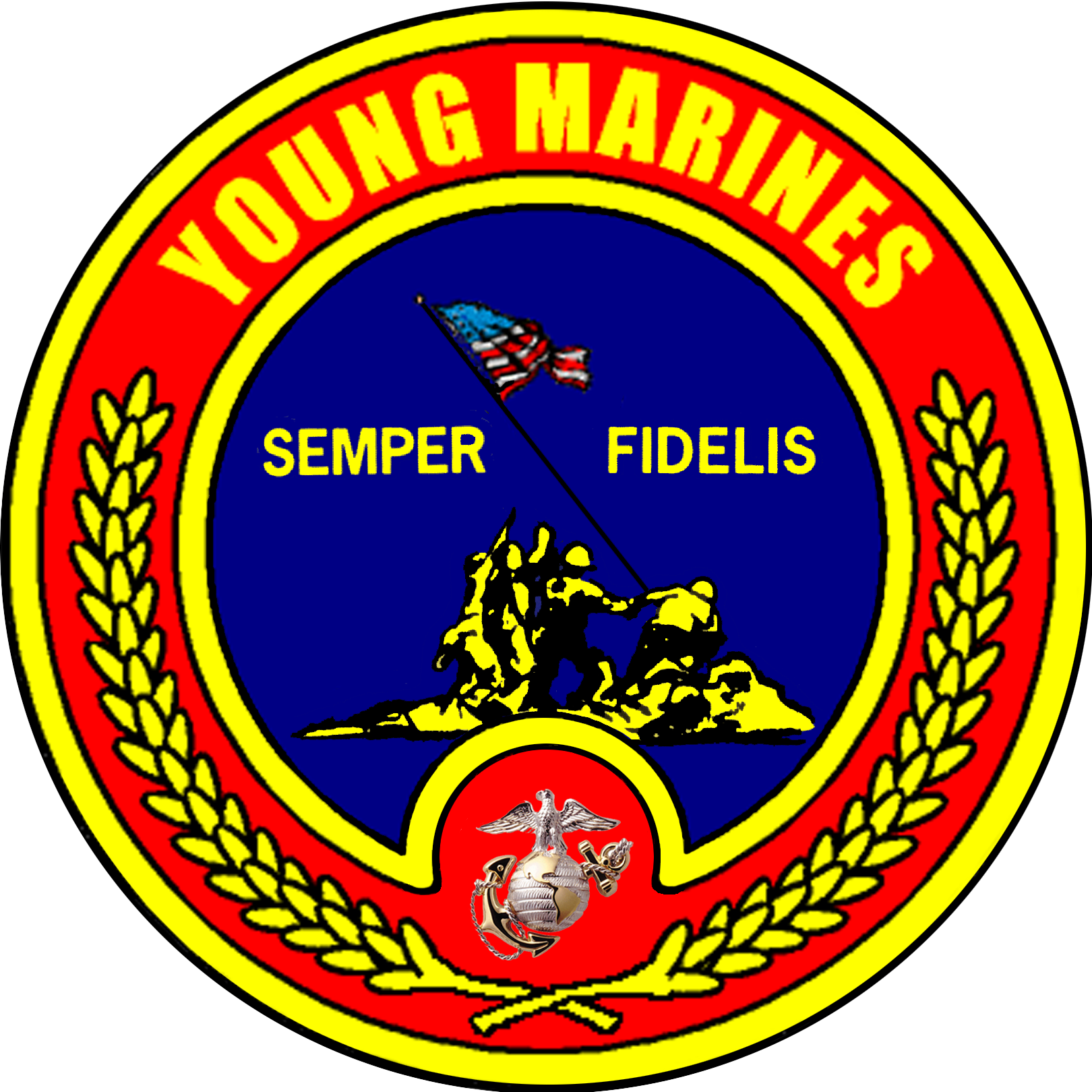 United States Marine Corps Young Marines logo. Made with Photoshop.